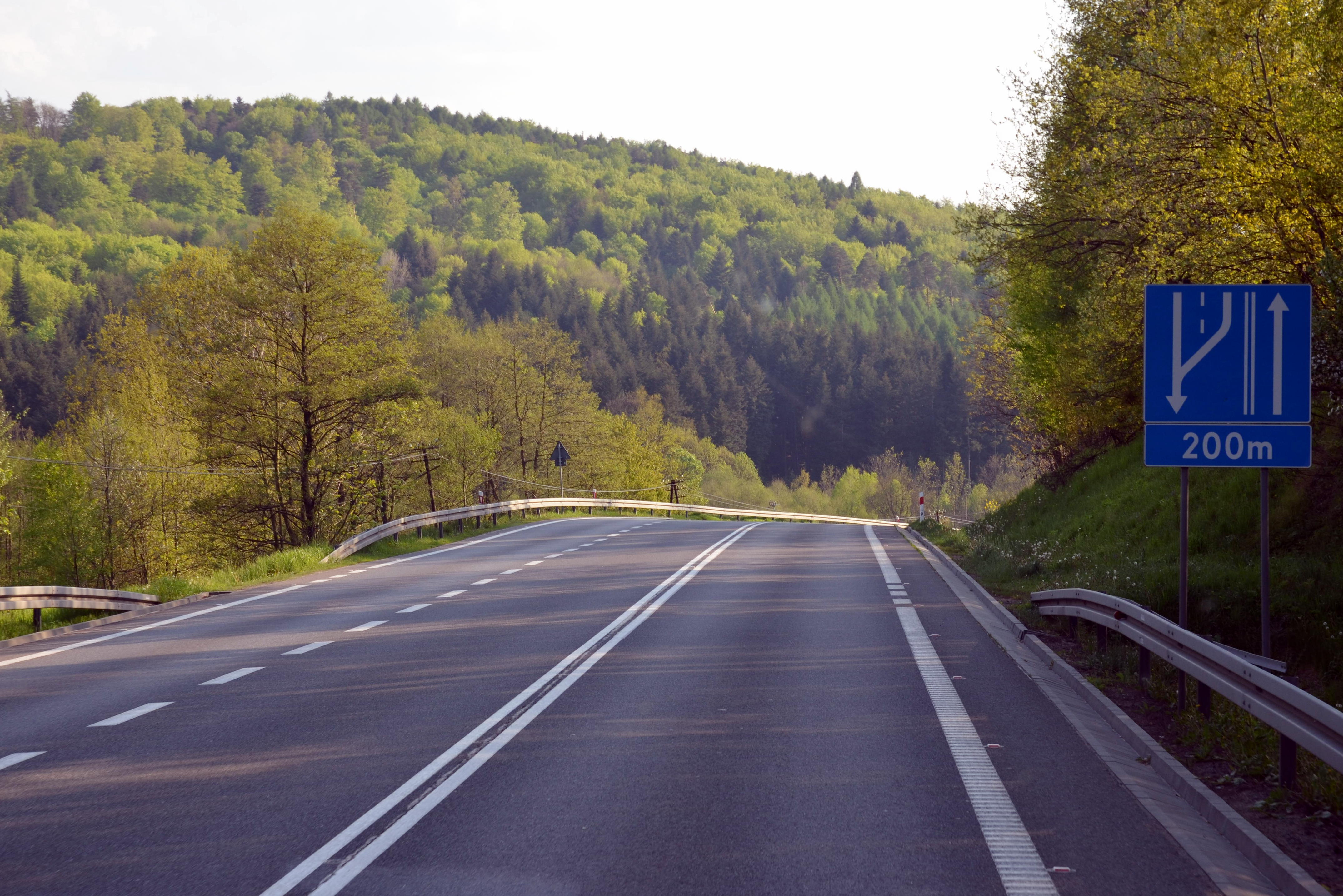 Niebylec